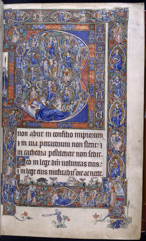 Gorleston Psalter (British Library Add Ms. 49622). From the BL website: "f. 8r: Historiated initial 'B'(eatus) of the Tree of Jesse, with marginal scenes of a hunt and David and Goliath" BEATUS VIR QUI non abiit in consilio impiorum & in via peccatorum non stetit & in cathedra pestilentie non sedit. Sed in lege domini voluntas eius & in lege eius meditabitur die ac nocte.